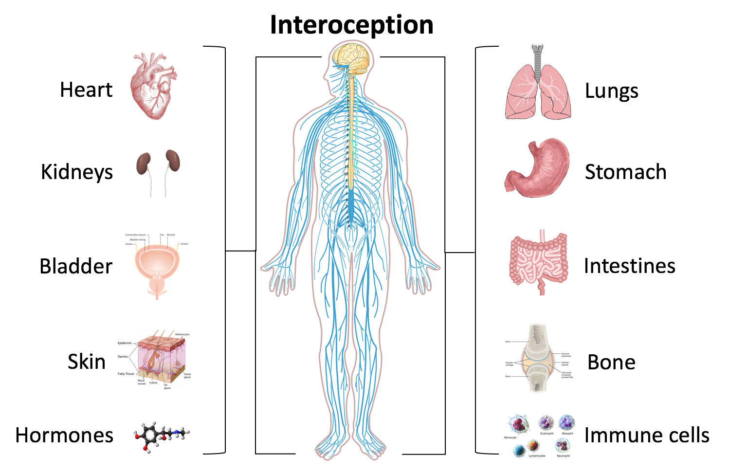 This image illustrates interoception within the body. Interoception is a process involving the nervous system and innervated organs and organ systems. Organs involved in interoception are indicated on the right and left of the body.